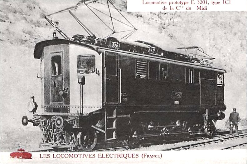 Electric locomotive Midi 1C1 E 3201, future SNCF 1C1 3901, 1912.